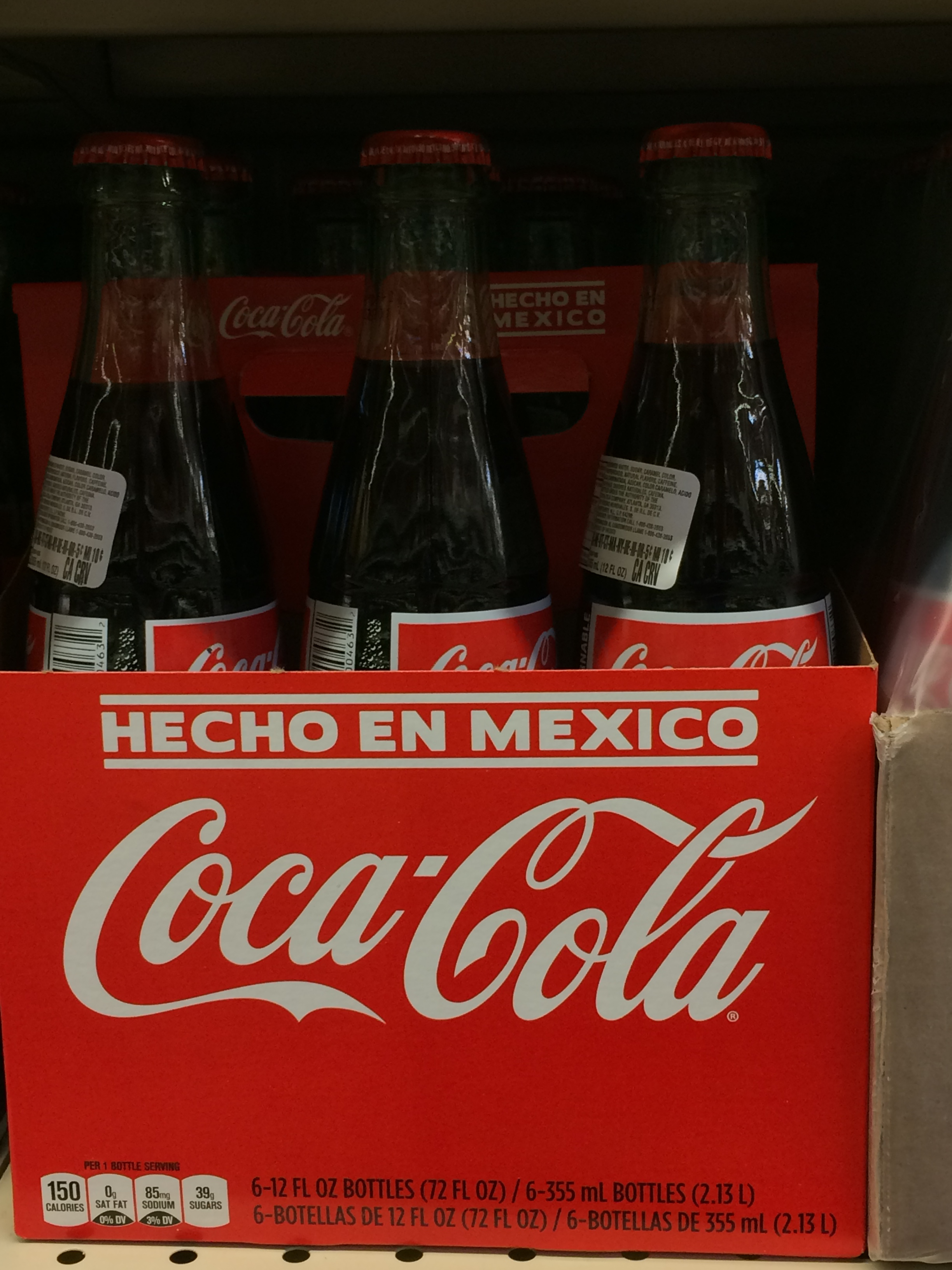 Mexican Coke Sold at a Wegmans Market. Mexican Coke is so well know in the United States that it can be sold in its authentic packaging